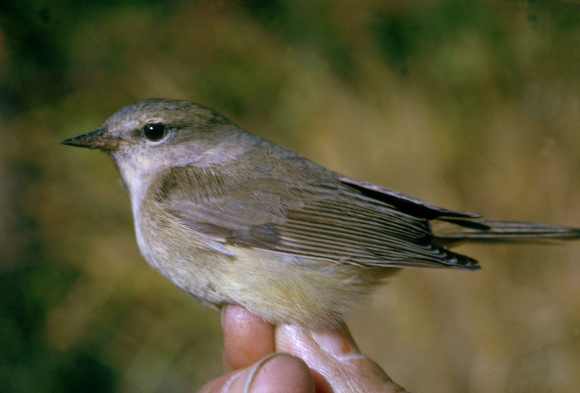 Orange-crowned Warbler (Vermivora celata)